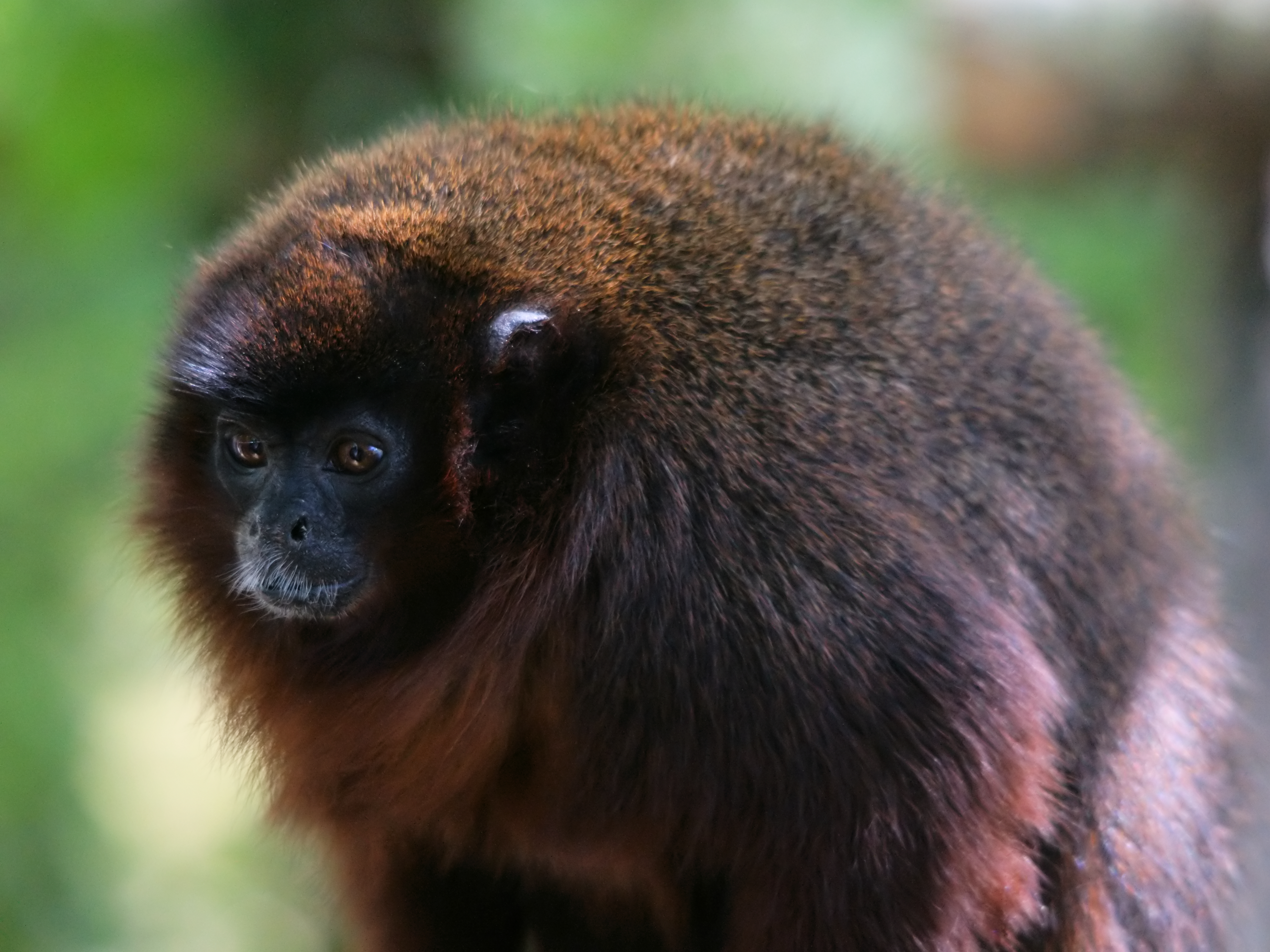 Coppery Titi at La Vallée de Singes, at Romagne (Vienne, Poitou-Charentes), France.